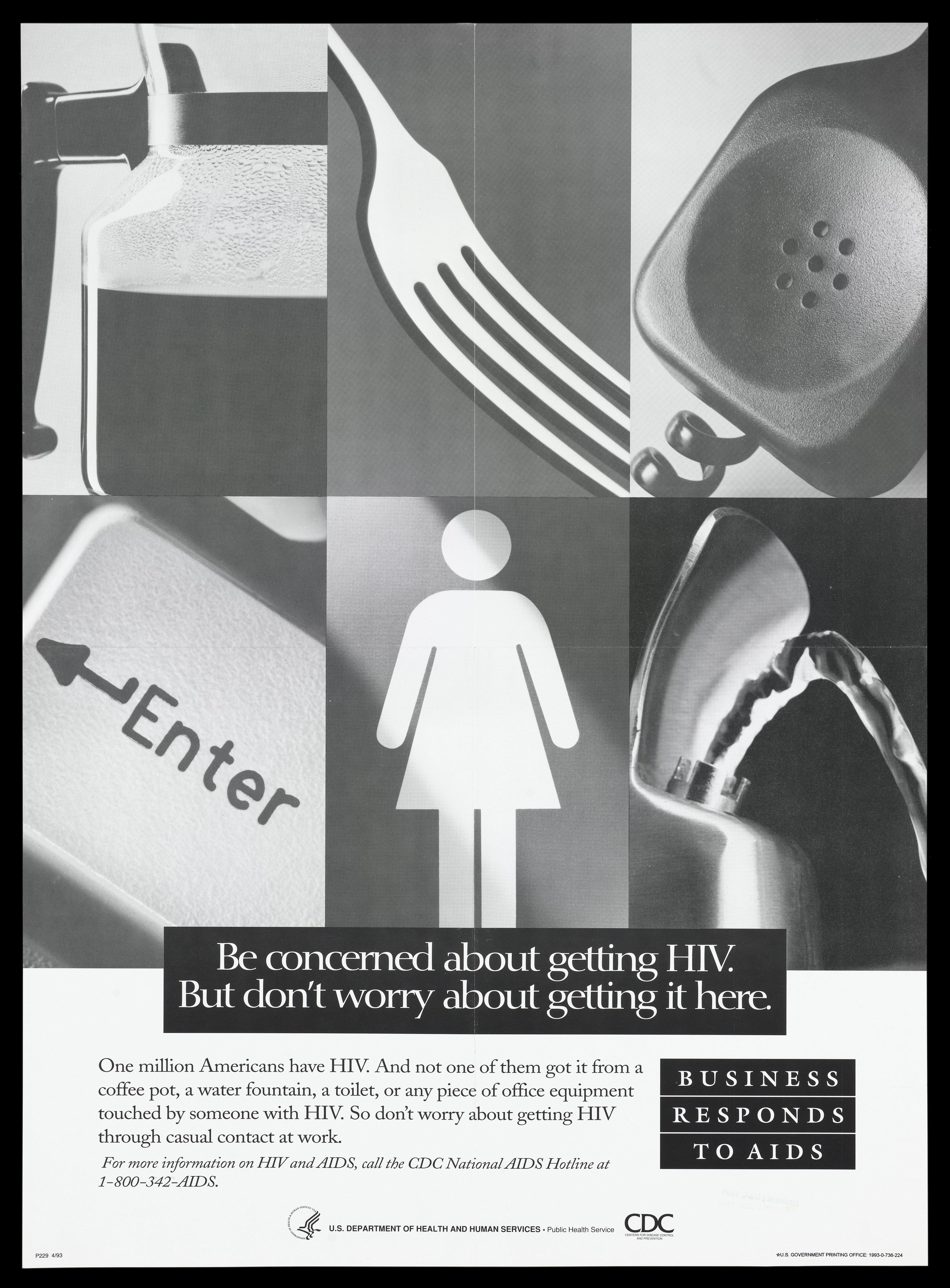 A coffee jug, a fork, the receiving end of a phone, a tab on a computer, a toilet sign and a drinking tap with a message about where you can't get HIV; a poster from the Business responds to Aids advertising campaign. Black and white lithograph, 1993. Iconographic Collections Keywords: AIDS; United States. Dept. of Health and Human Services.; AIDS Posters; Market; AIDS poster